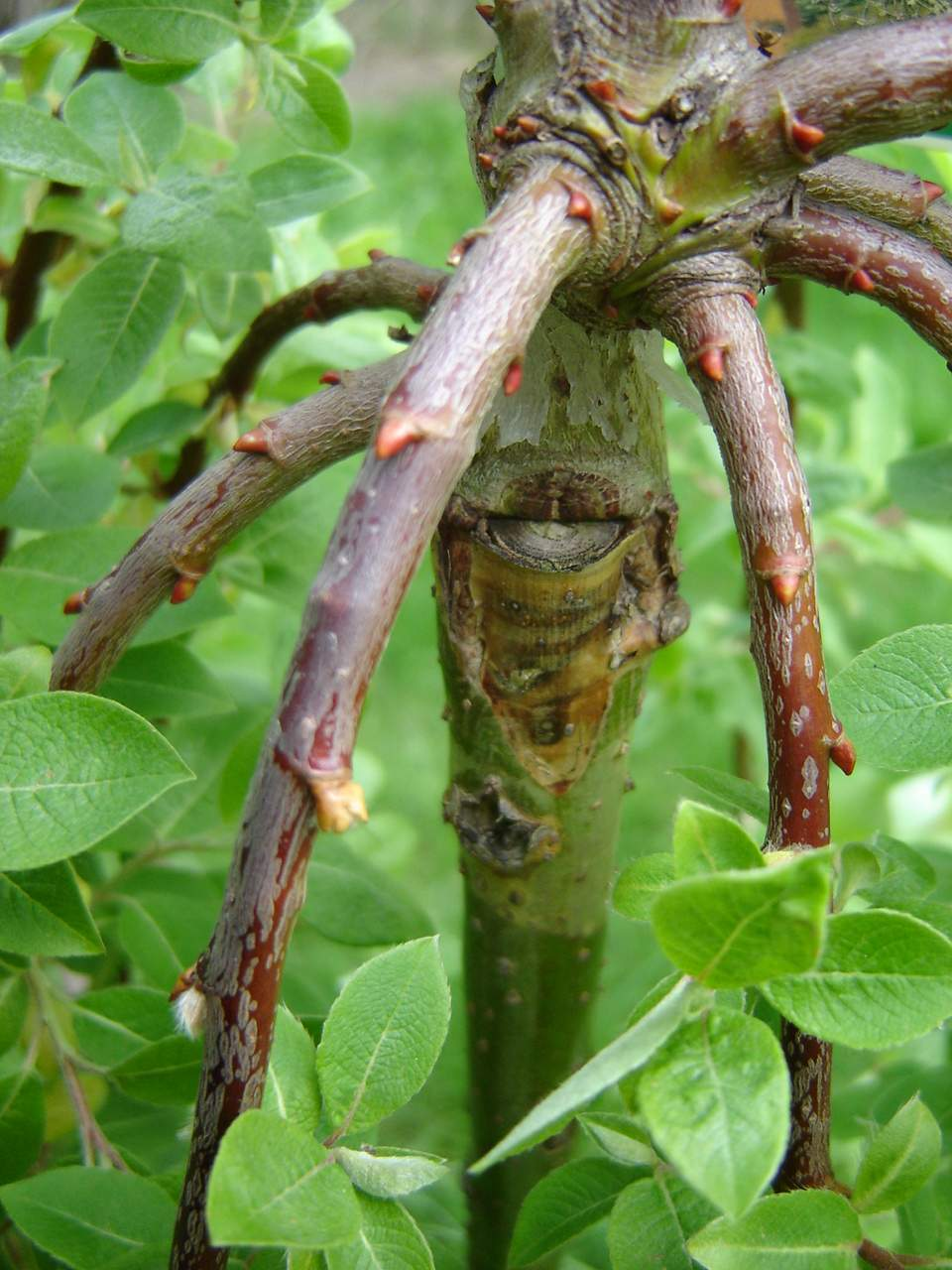 Grafted Salix caprea.